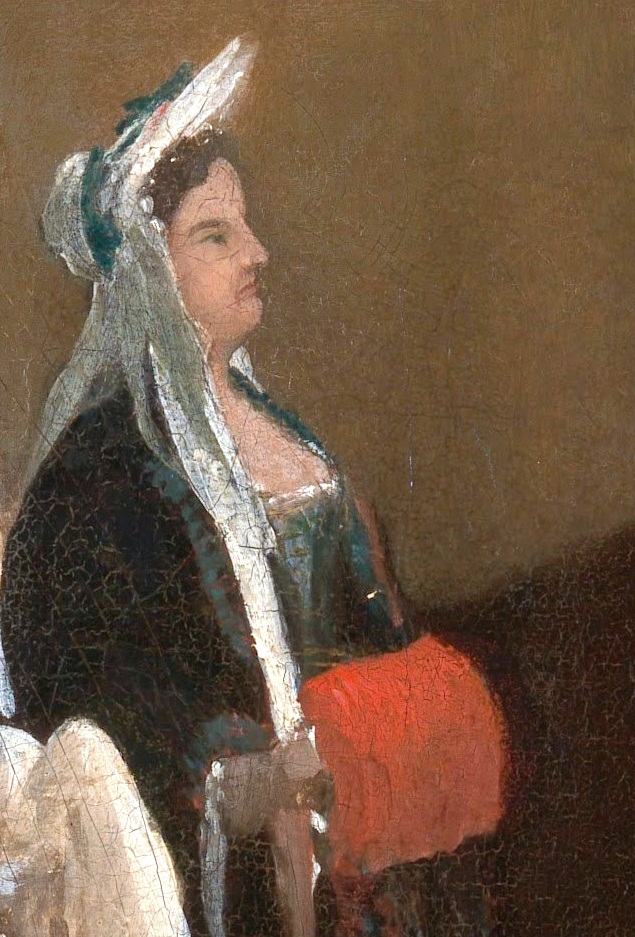 Detail from Marco Rucci's painting Rehearsal of an opera showing the singer Margherita de L'Epine